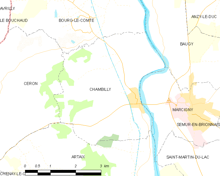 Map of French municipality